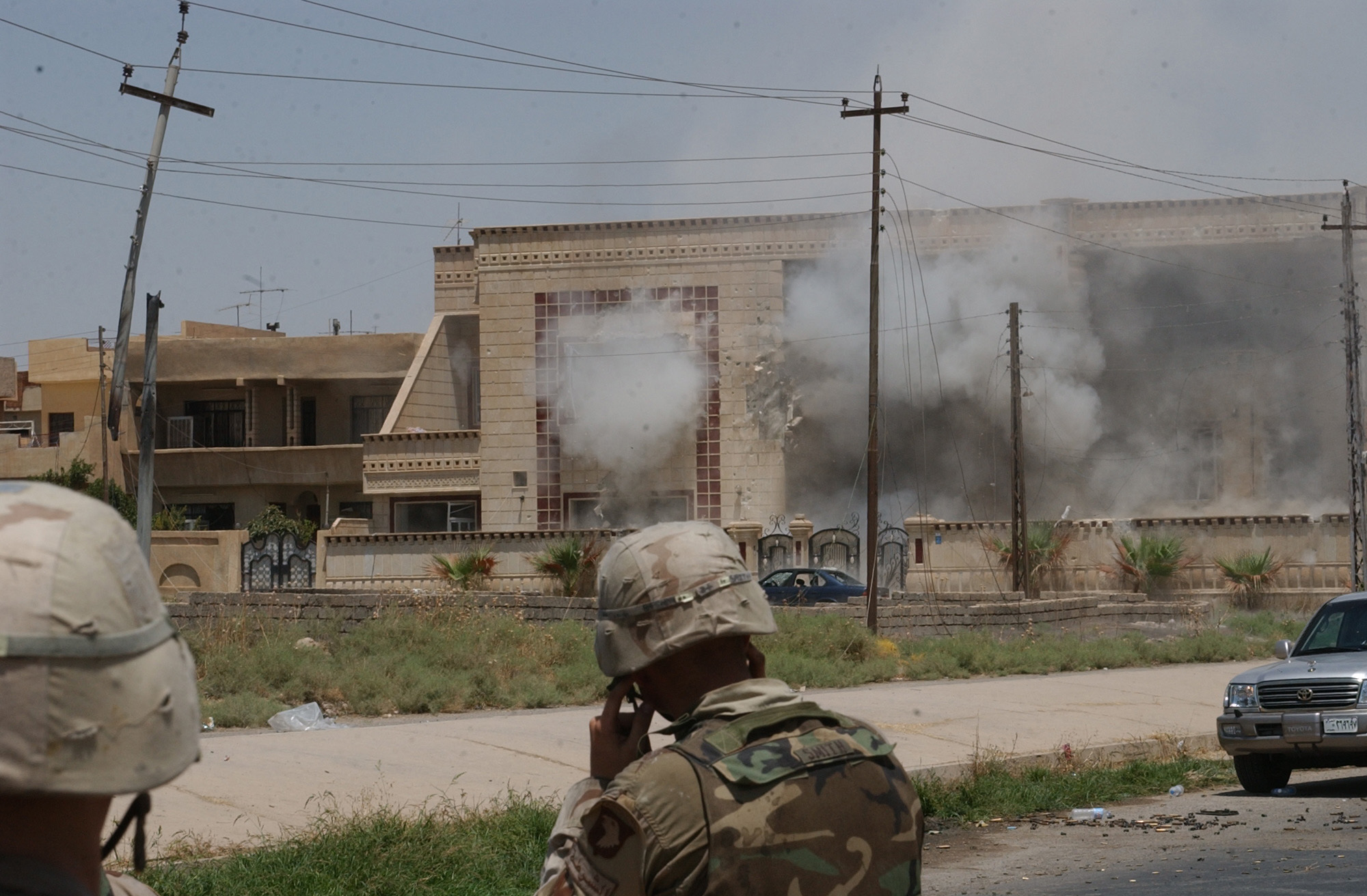 A cloud of dust and smoke billows out from a building hit with a TOW missile launched by soldiers of the Army's 101st Airborne Division (Air Assault) on July 22, 2003, in Mosul, Iraq. Saddam Hussein's sons Qusay and Uday were killed in a gun battle as they resisted efforts by coalition forces to apprehend and detain them.